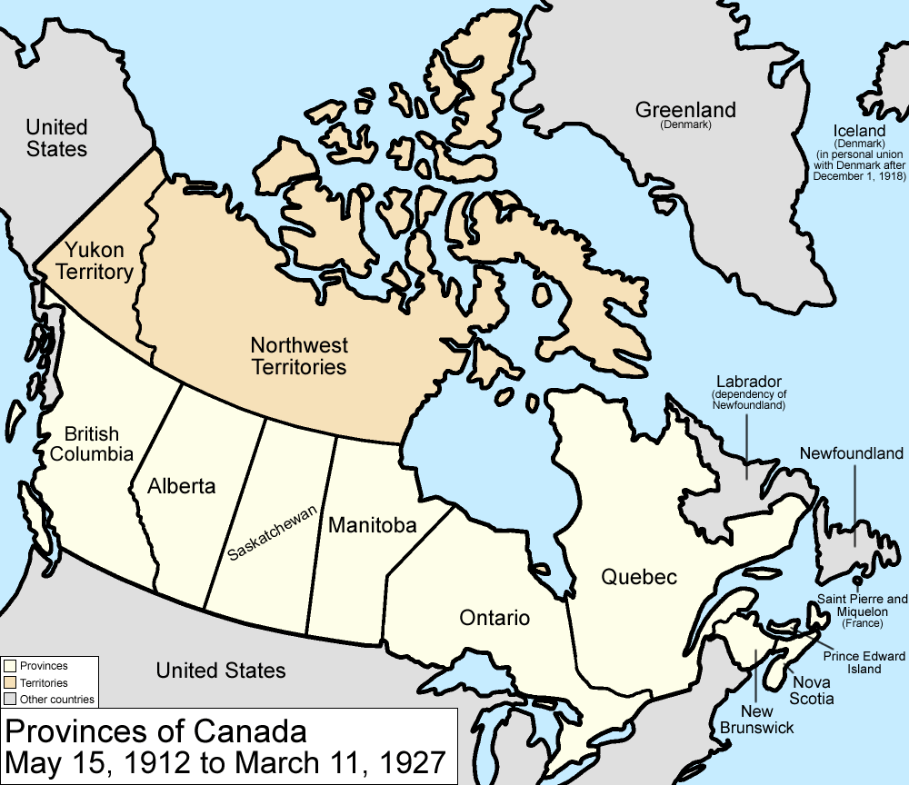 Map of the provinces and territories of Canada as they were between 1912 and 1927. On May 15 1912, parts of the Northwest Territories were given to Manitoba, Ontario, and Quebec. Also in 1912, the name officially changed from "North-West Territories" to "Northwest Territories". On March 1 1927, a disputed part of Quebec was given to the Dominion of Newfoundland by a court. Made by User:Golbez.